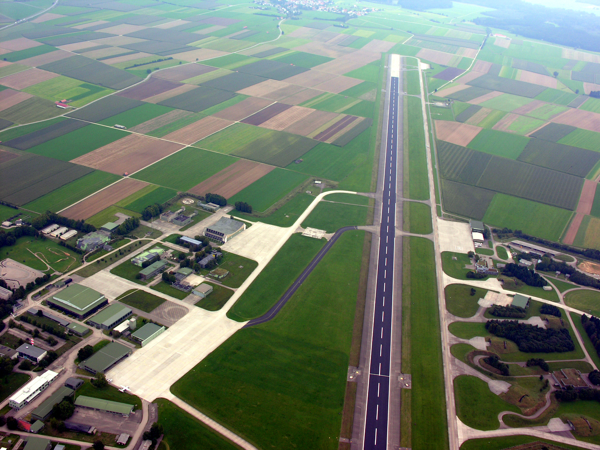 Germany, Bavaria, aerial view of Memmingen airport